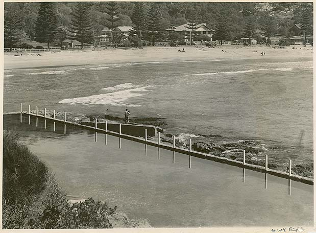 View of Palm Beach Dated: No date Digital ID: 12932-a012-a012X2442000146 Rights: We'd love to hear from you if you use our photos. Many other photos in our collection are available to view and browse on our website using Photo Investigator.